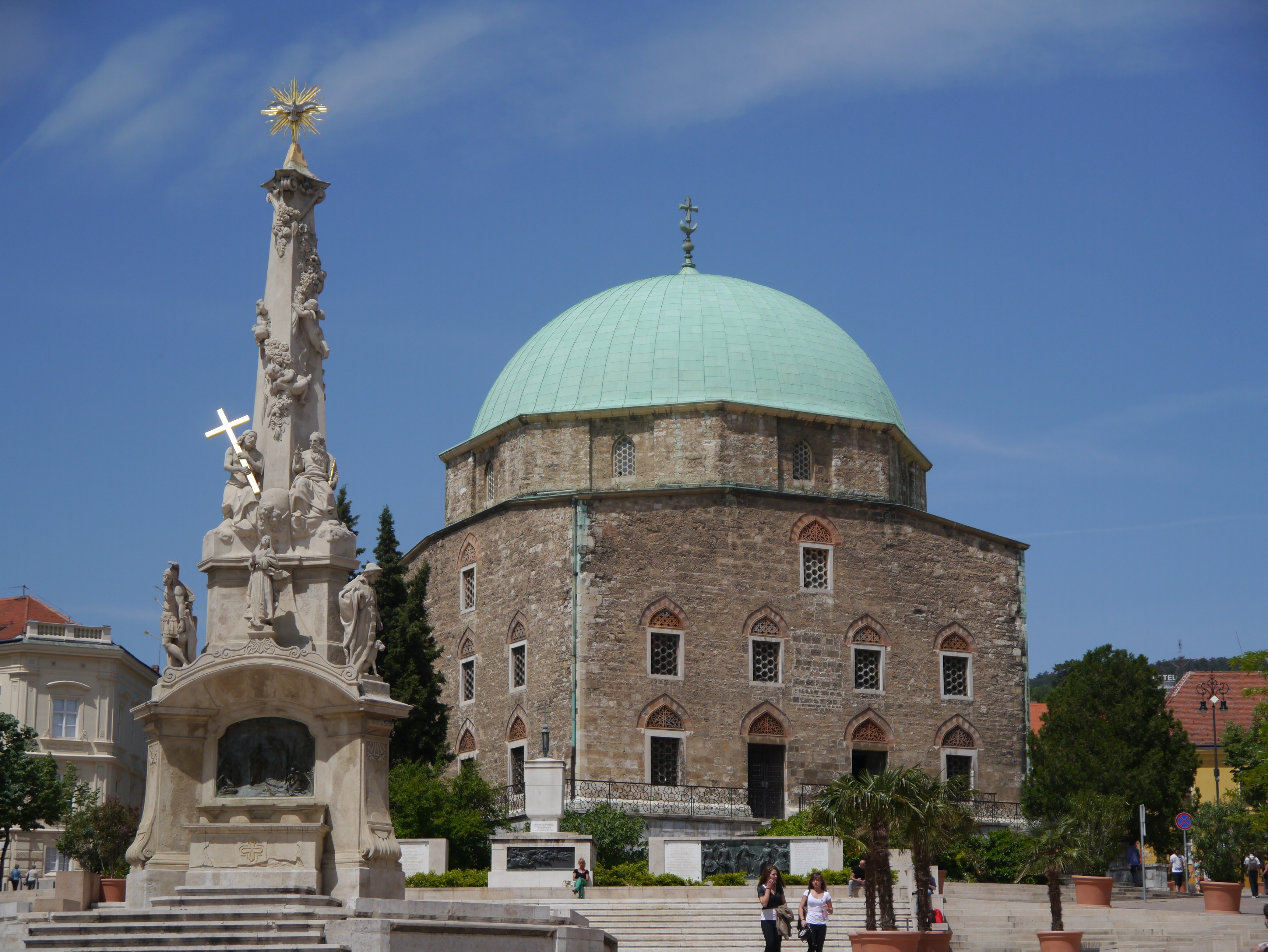 Former Mosque Gazi Khassim (now Catholic church), Pécs, Southern Hungary